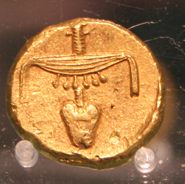 Roemer- und Pelizaeus-Museum, Hildesheim